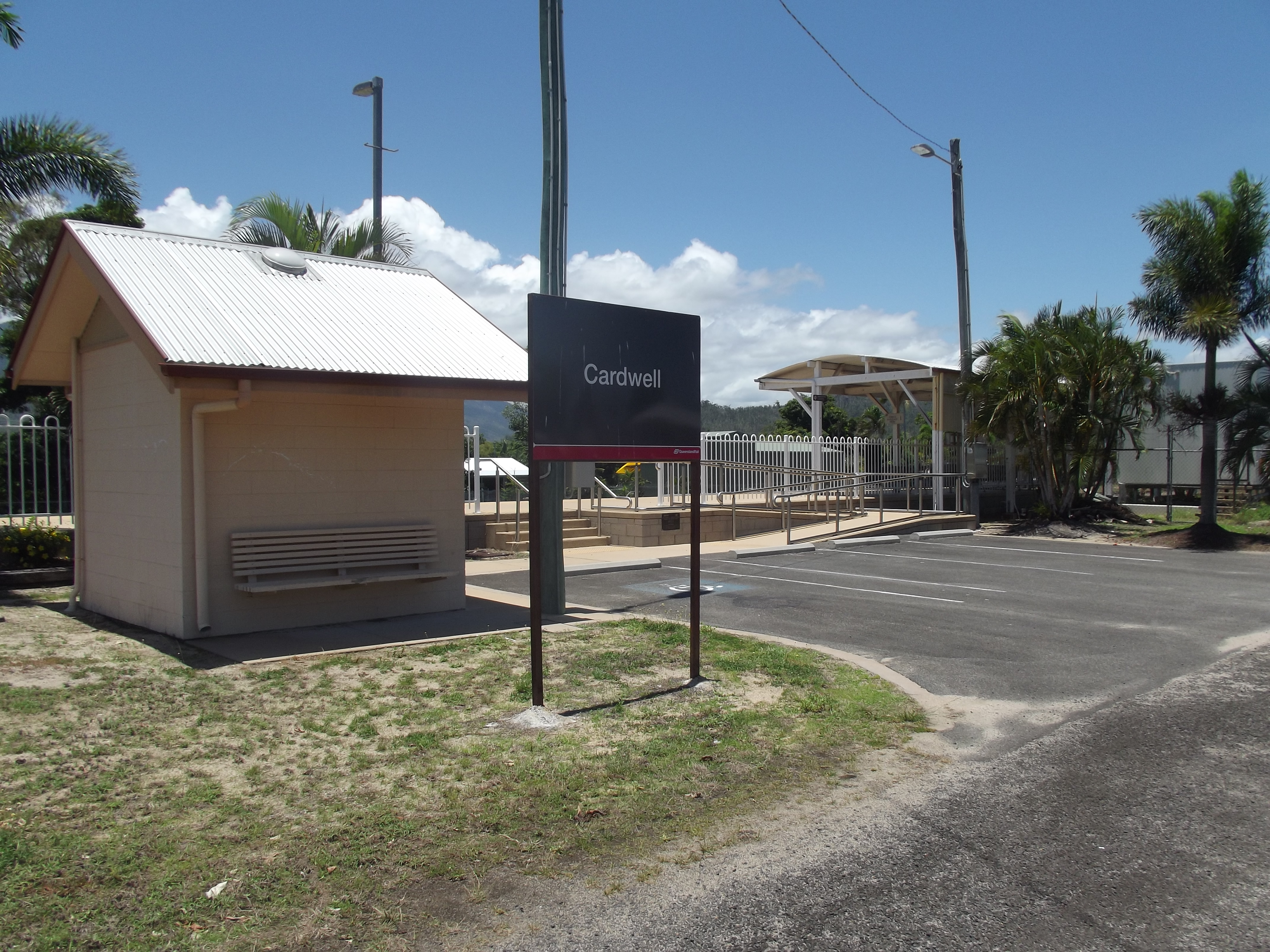 Cardwell railway station, a stop on the North Coast line.